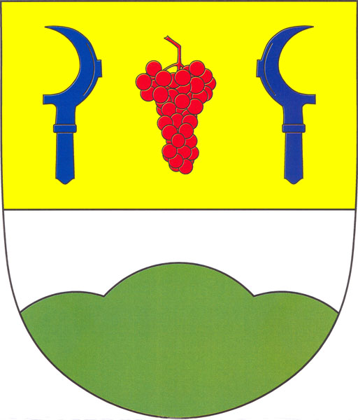 Municipal coat of arms of Nechvalín village, Hodonín District, Czech Republic.